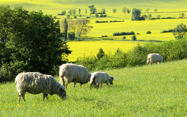 View from Sundon Hills Country Park, near to Upper Sundon, Bedfordshire, Great Britain. On a clear May day, the yellow fields of oil-seed rape make a wonderful contrast with the green of the down.